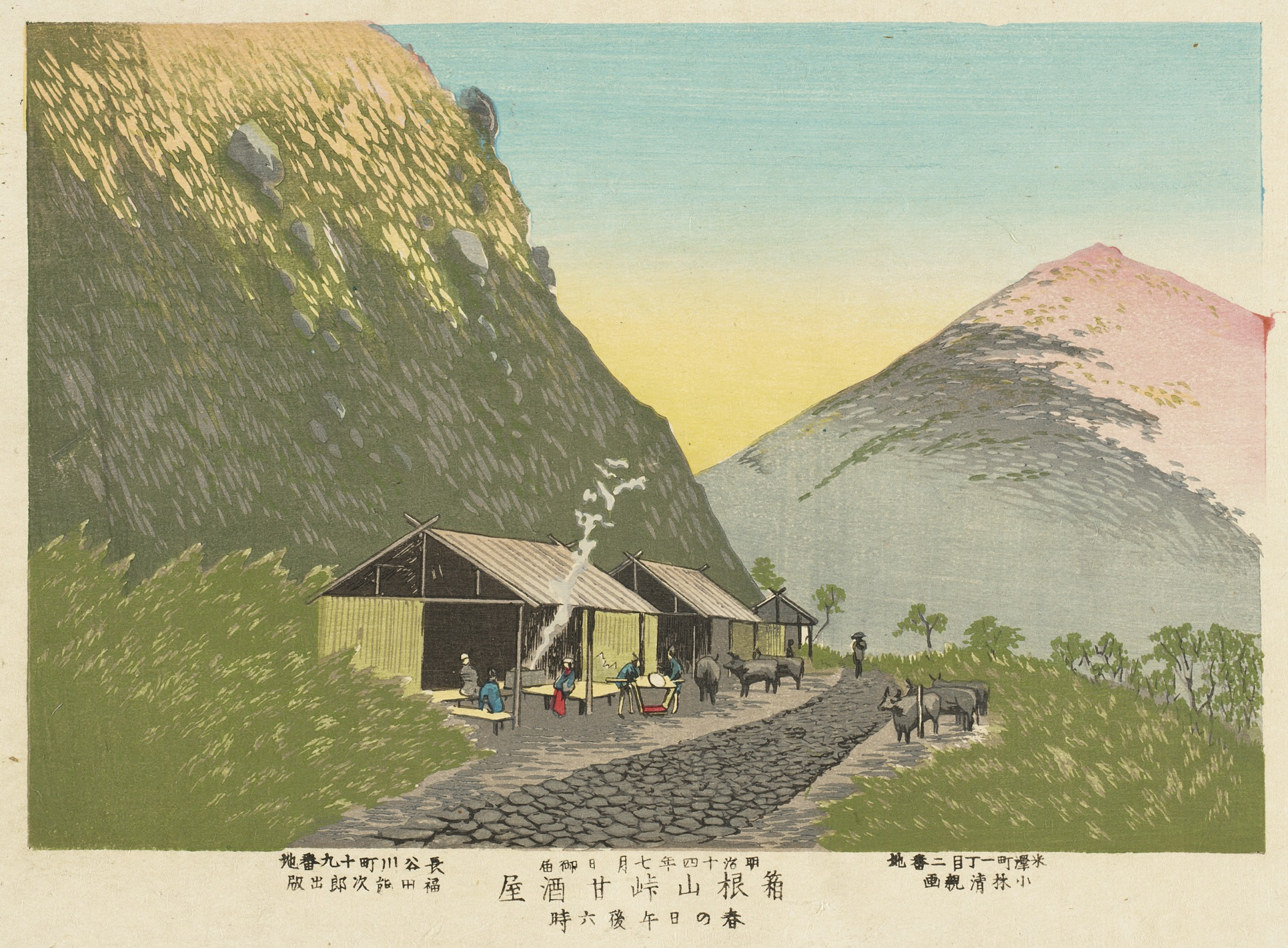 Japan, 1881 Alternate Title: Hakone san toge amazakeya haru no hi gogo rokuji Prints; woodcuts Color woodblock print Gift of Carl Holmes (M.71.100.67) Japanese Art